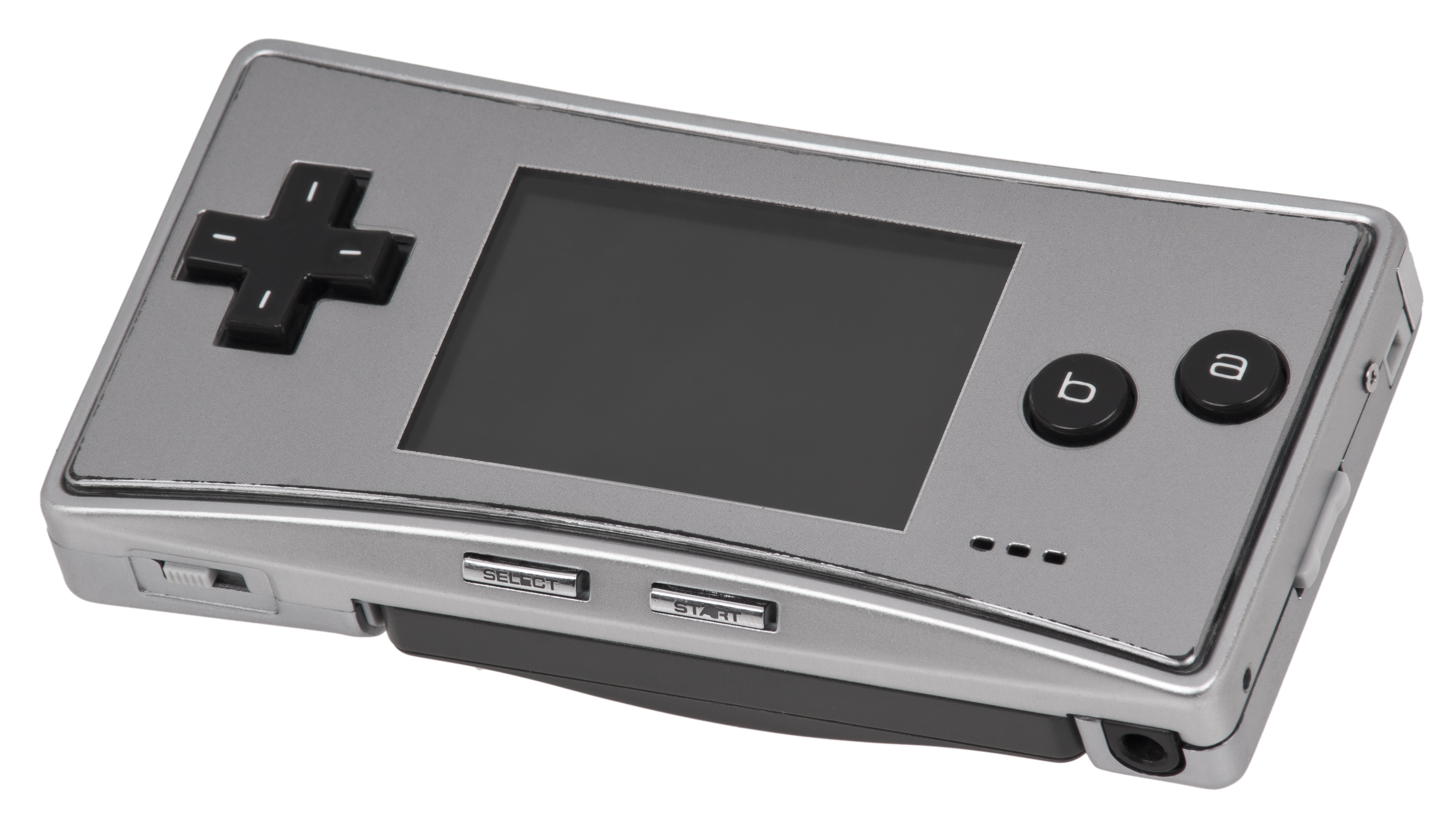 A beat-up Game Boy Micro, the last hardware version of the Game Boy Advance.